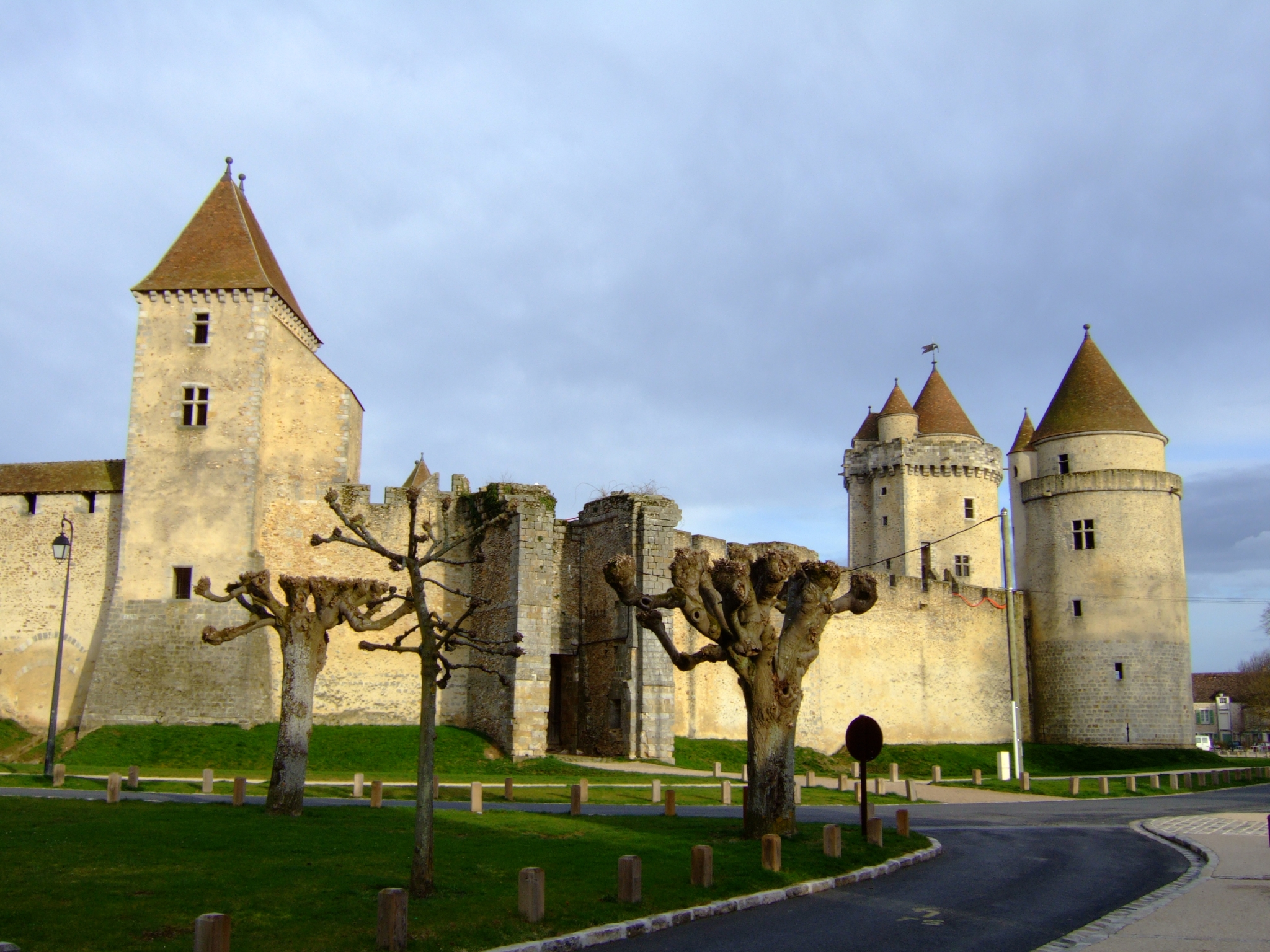 Blandy les Tours, France. Castle from 13th century restored in early of 1990.